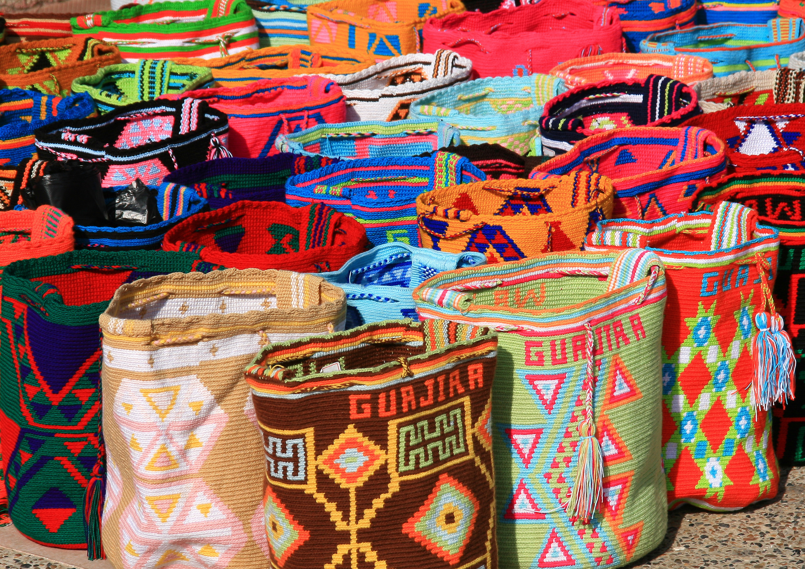 Wayuu bags